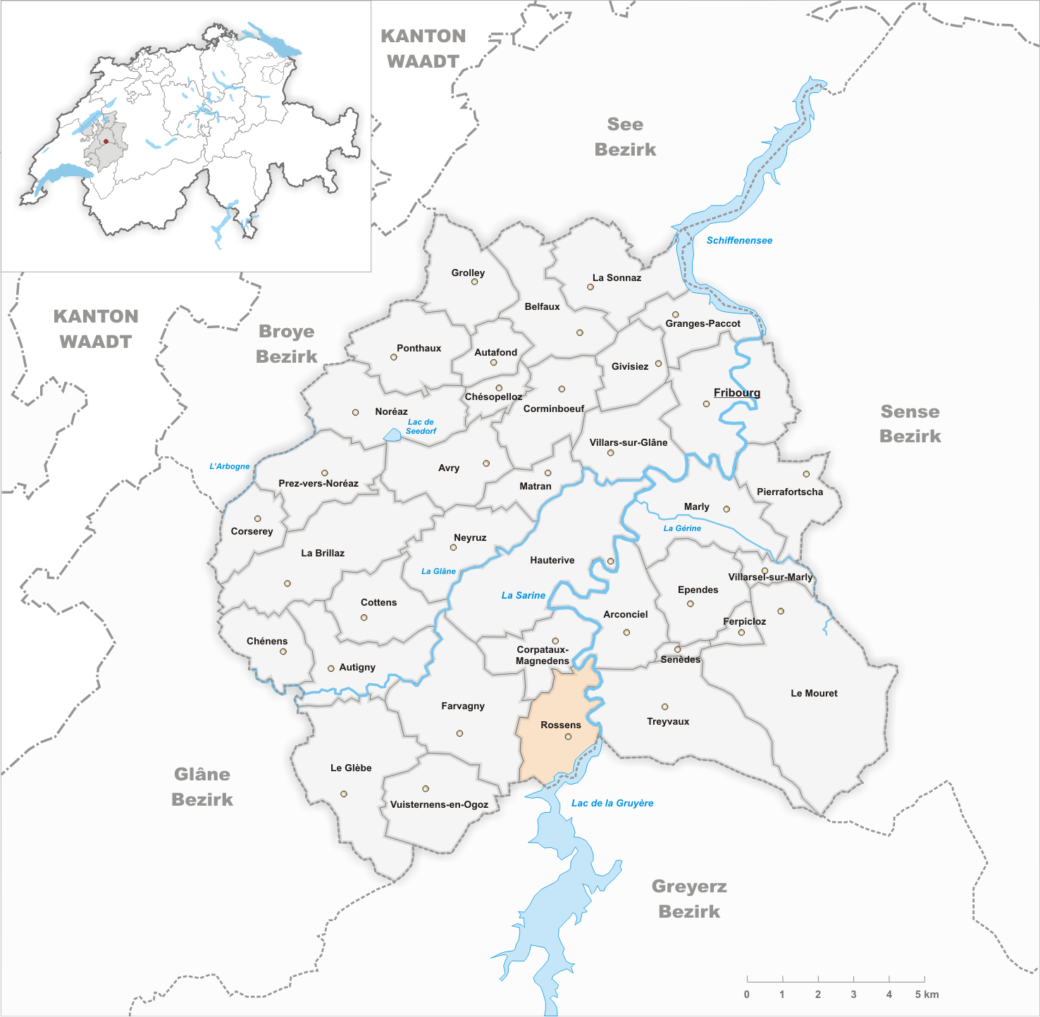 Municipality Rossens